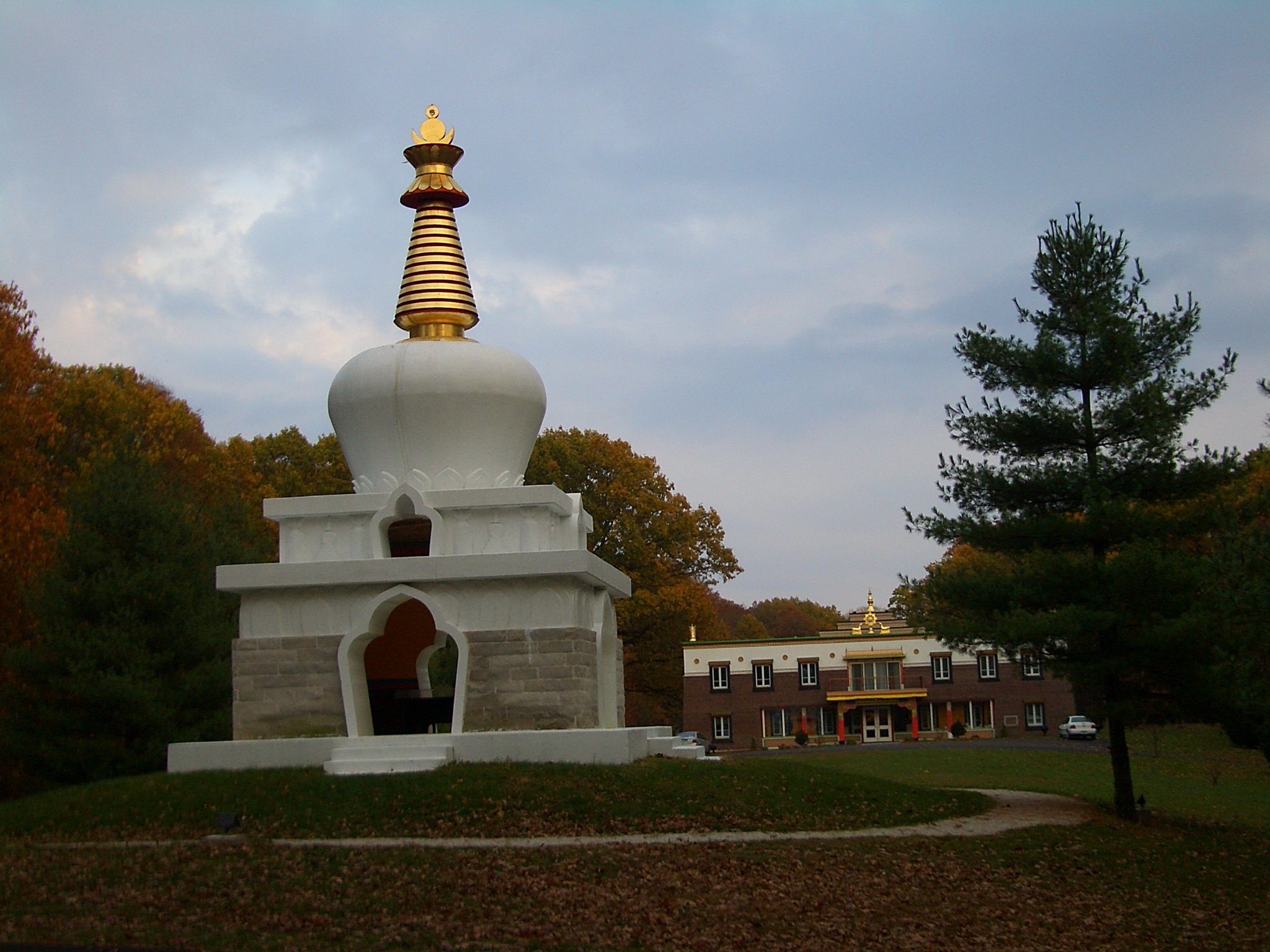 A stupa on the grounds of Tibetan Mongolian Buddhist Cultural Center, Indiana. located on south-eastern outskirts (3655 S. Snoddy Rd.) of Bloomington, IN.